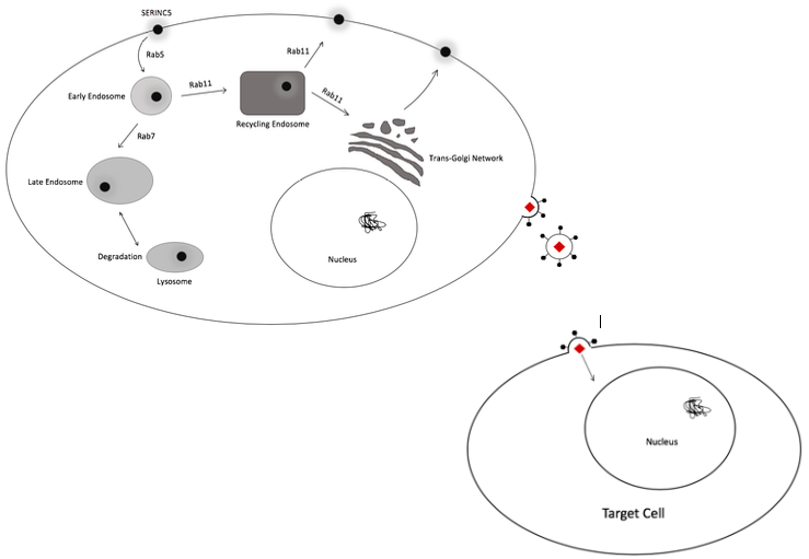 Lysosomal degradation of SERINC5 in the presence of Nef.